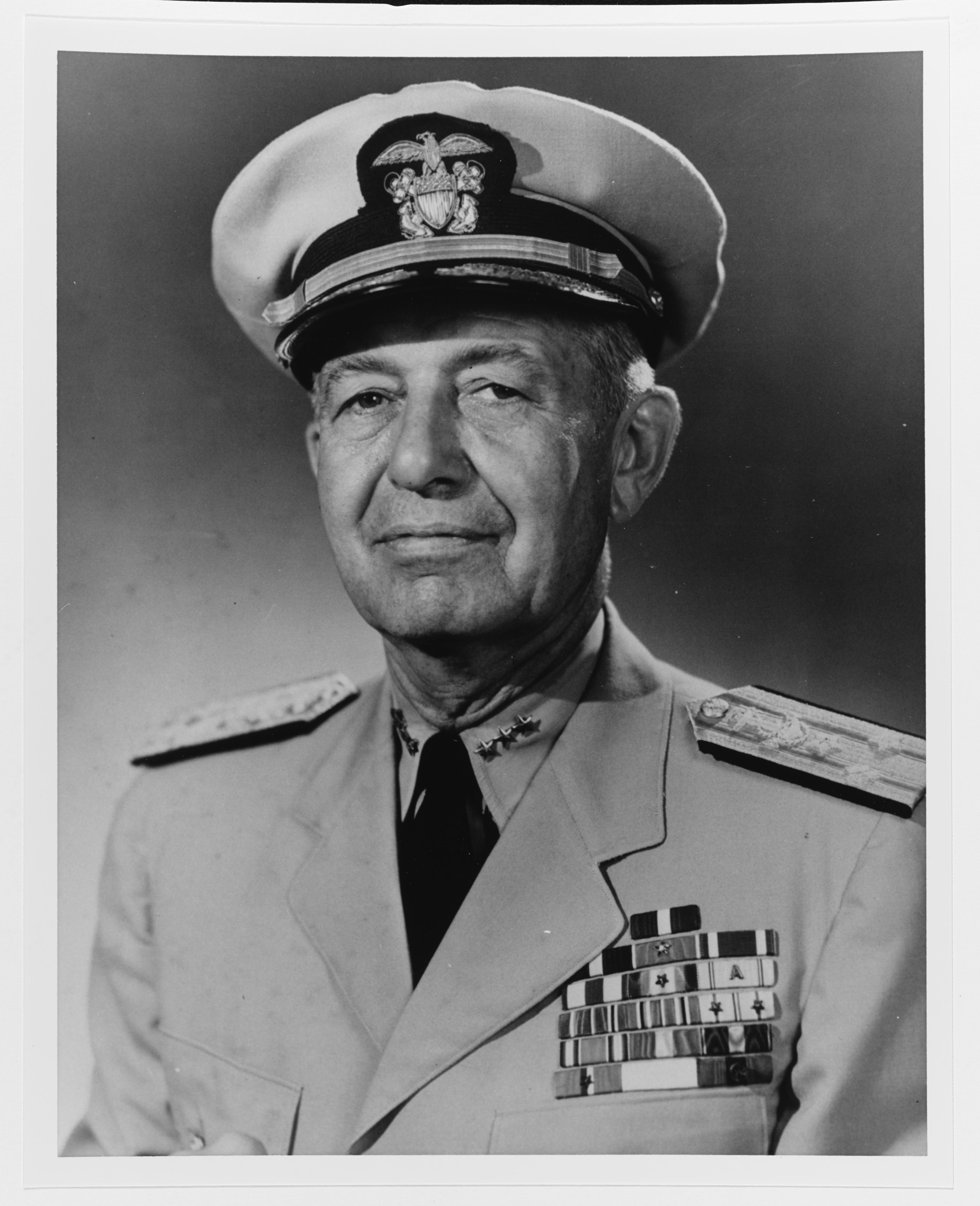 Vice admiral James Laurence Kauffman (18 April 1887 – 21 October 1963)